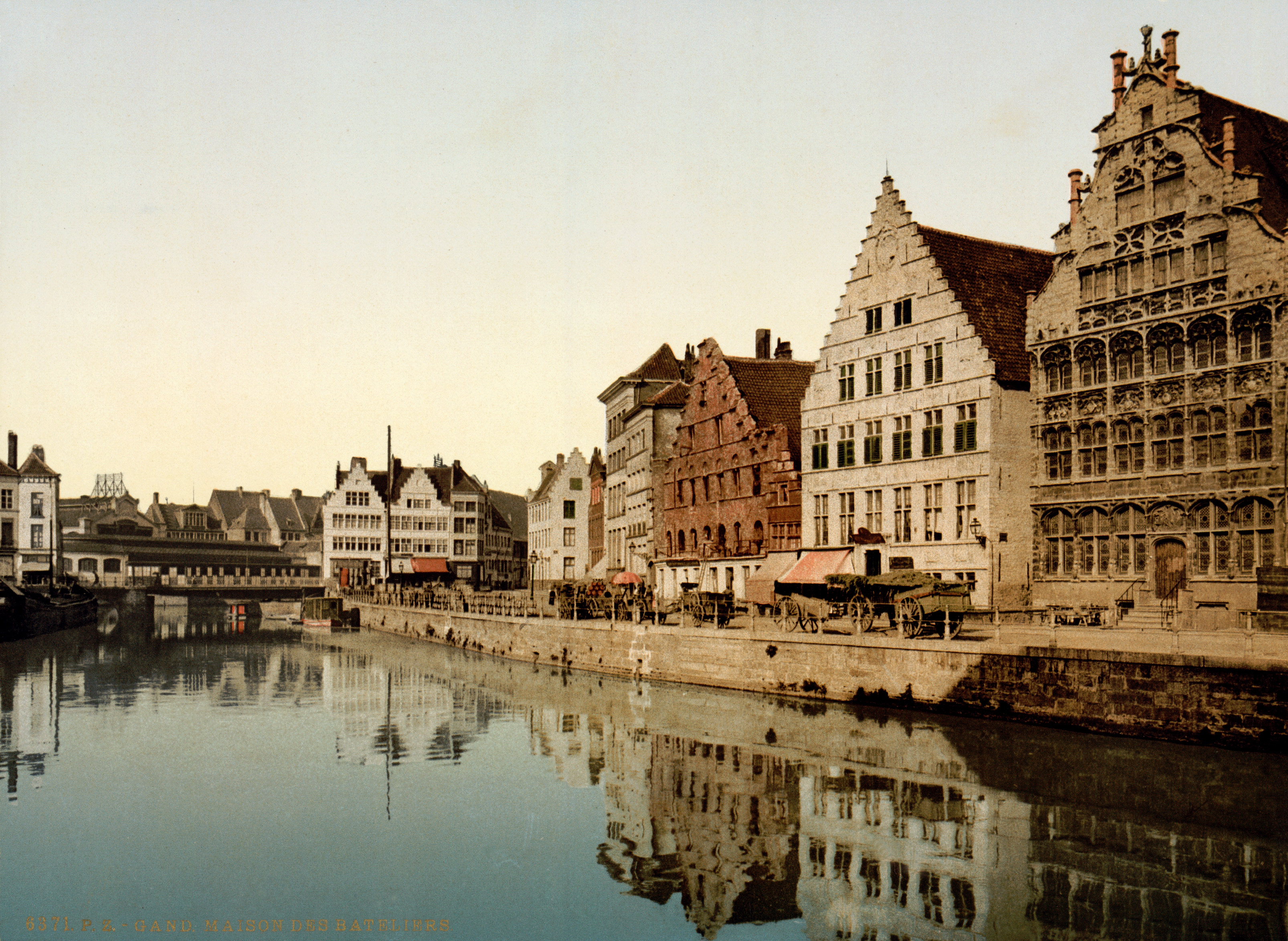 The Graslei on the Lys (Leie) River, Ghent. On the right, the free boatmen's guild house (gildehuis van de vrije schippers, 1531, gothic style), second from right, the grain weighers' guild house (gildehuis van de korenmeters, 1698, Flemish renaissance). Third from right, Het Spijker (grain storehouse, 1200, Romanesque).